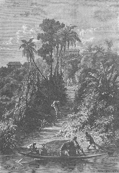 An illustration from Jules Verne's novel "Eight Hundred Leagues on the Amazon".